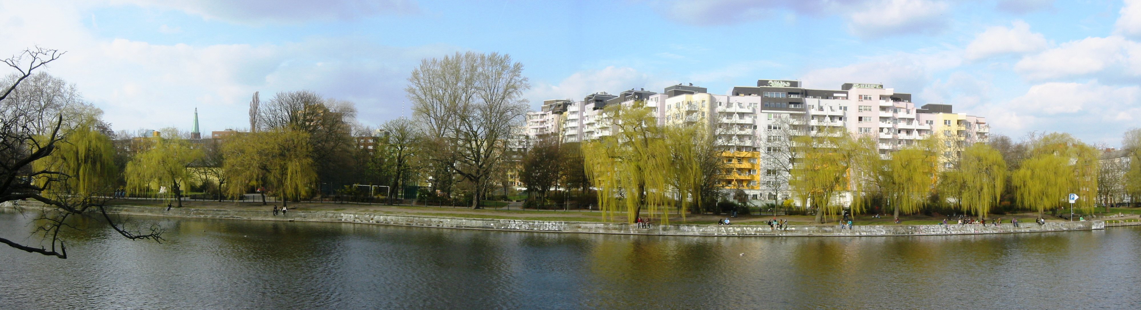 View of the Böcklerpark in Berlin-Kreuzberg (Germany) from Urban harbor